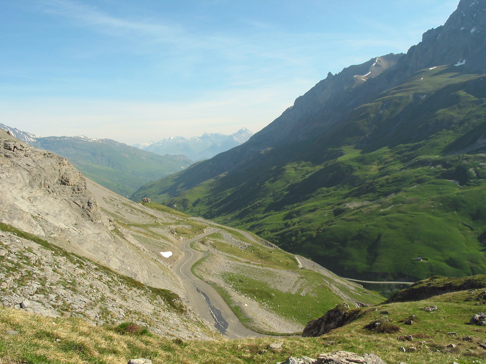 Valloire (Savoie - France), panorama on the valley of the Valloirette and the Rocks de la Grande Paré seen from the north side of Galibier Mountain pass near "Plan Lachat".